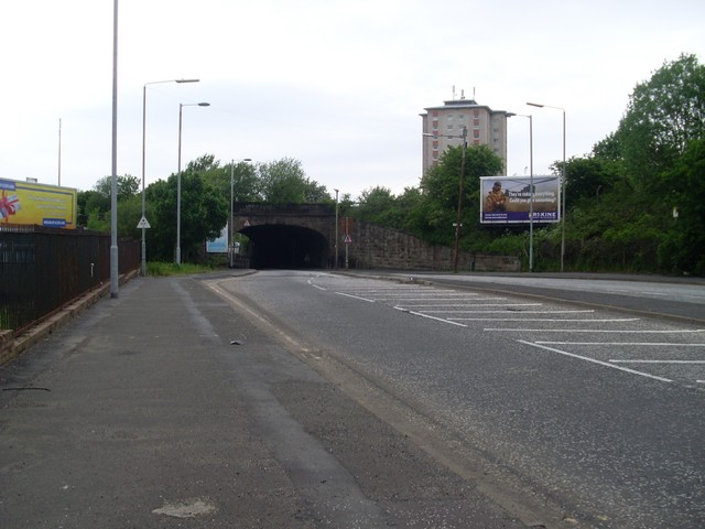 Tunnel under railway east of Nitshill Station Allows Nitshill Road to unerpass the railway.